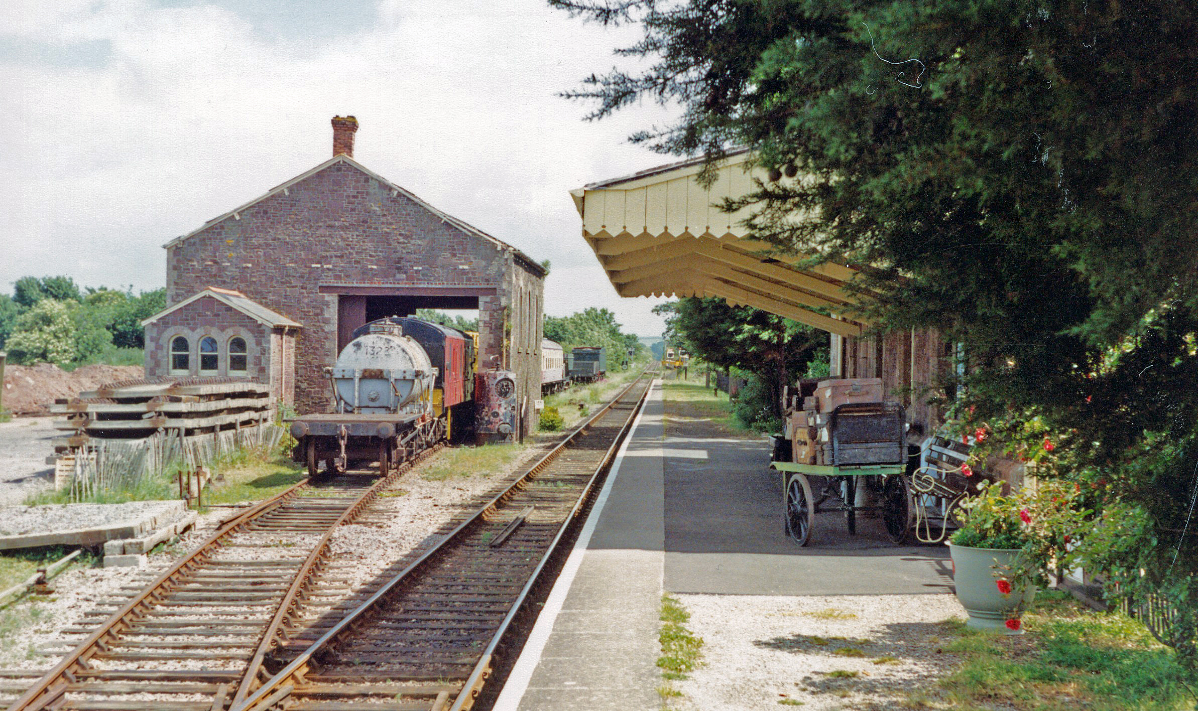 Dunster station (restored), 1991. View eastward, towards Bishops Lydeard (and Taunton): ex-GWR Taunton - Minehead branch, closed 4/1/71 but reopened by the heritage West Somerset Railway in 1976. Evidently by 1991 they had acquired enough goods wagons to make the scene here look quite 'normal'.